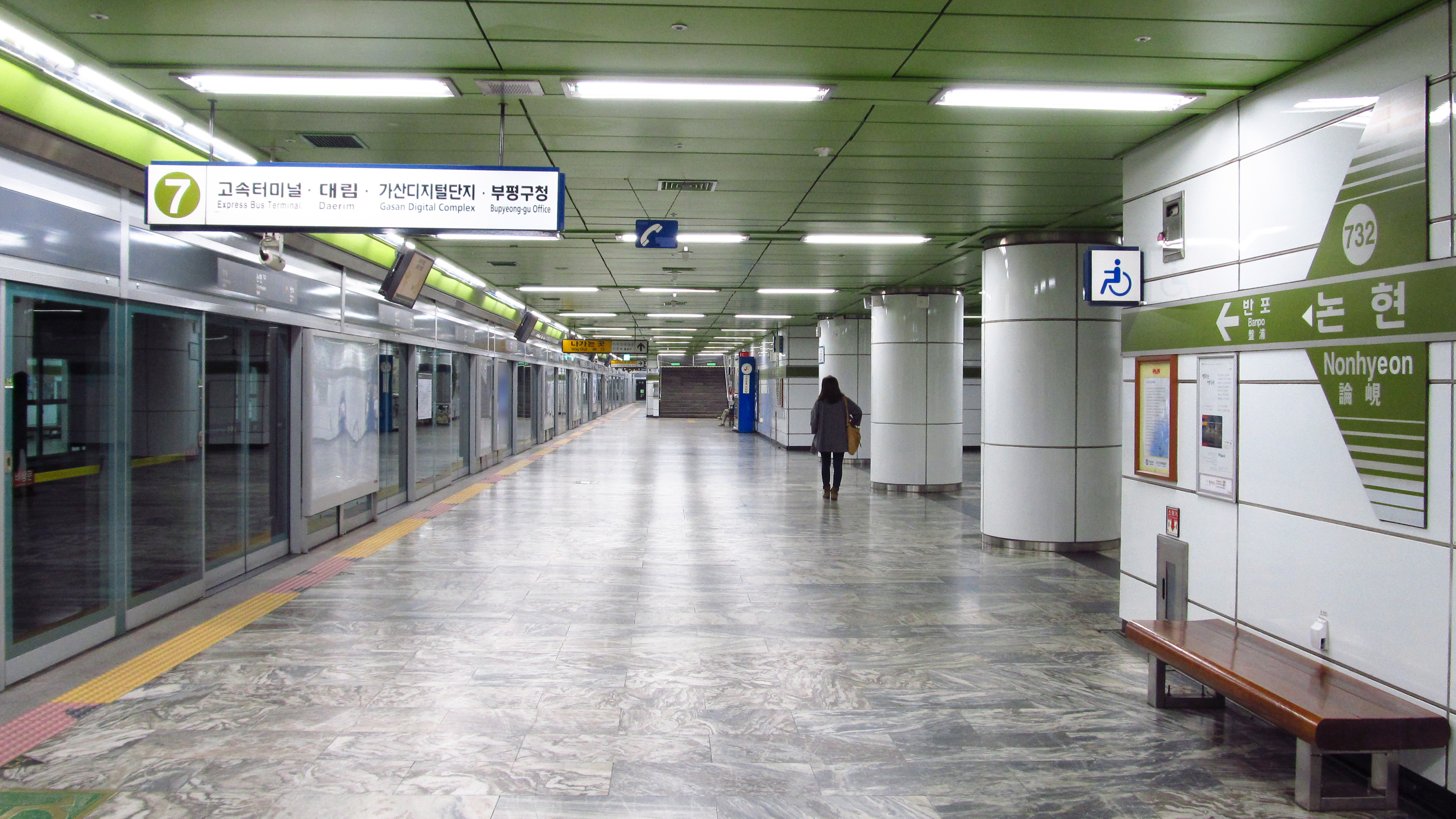 The platform at Nonhyeon Station on Seoul Subway Line 7 in Gangnam-gu, Seoul, Republic of Korea(South Korea)